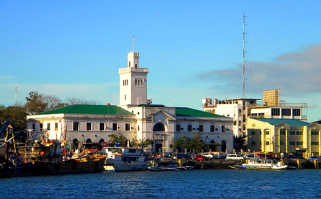 The Customs House of Iloilo along Muelle Loney, Iloilo City, Philippines